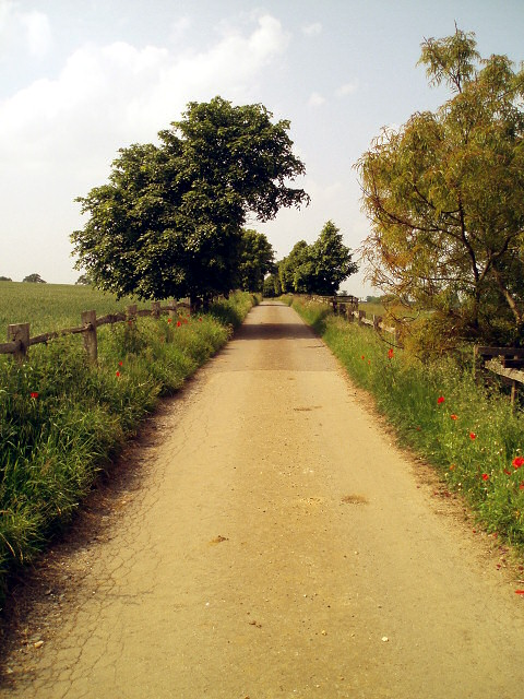 Lane from Green's Park Looking in the direction of Woodend Green